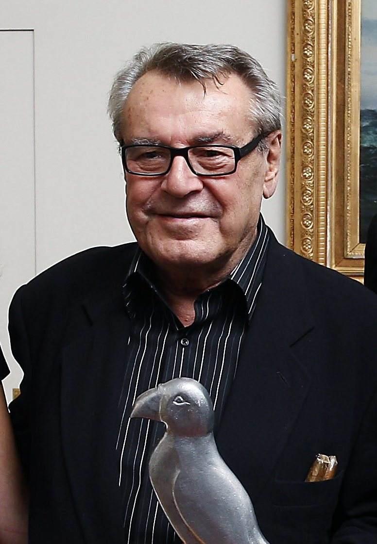 Reykjavík International Film Festival (RIFF), 2009. Honorary life-time achievement award for director Miloš Forman. From left to right: Hrönn Marinósdóttir, festival director; Miloš Forman; Ólafur Ragnar Grímsson, President of Iceland. Photo taken at Bessastaðir, the Presidential Residence.